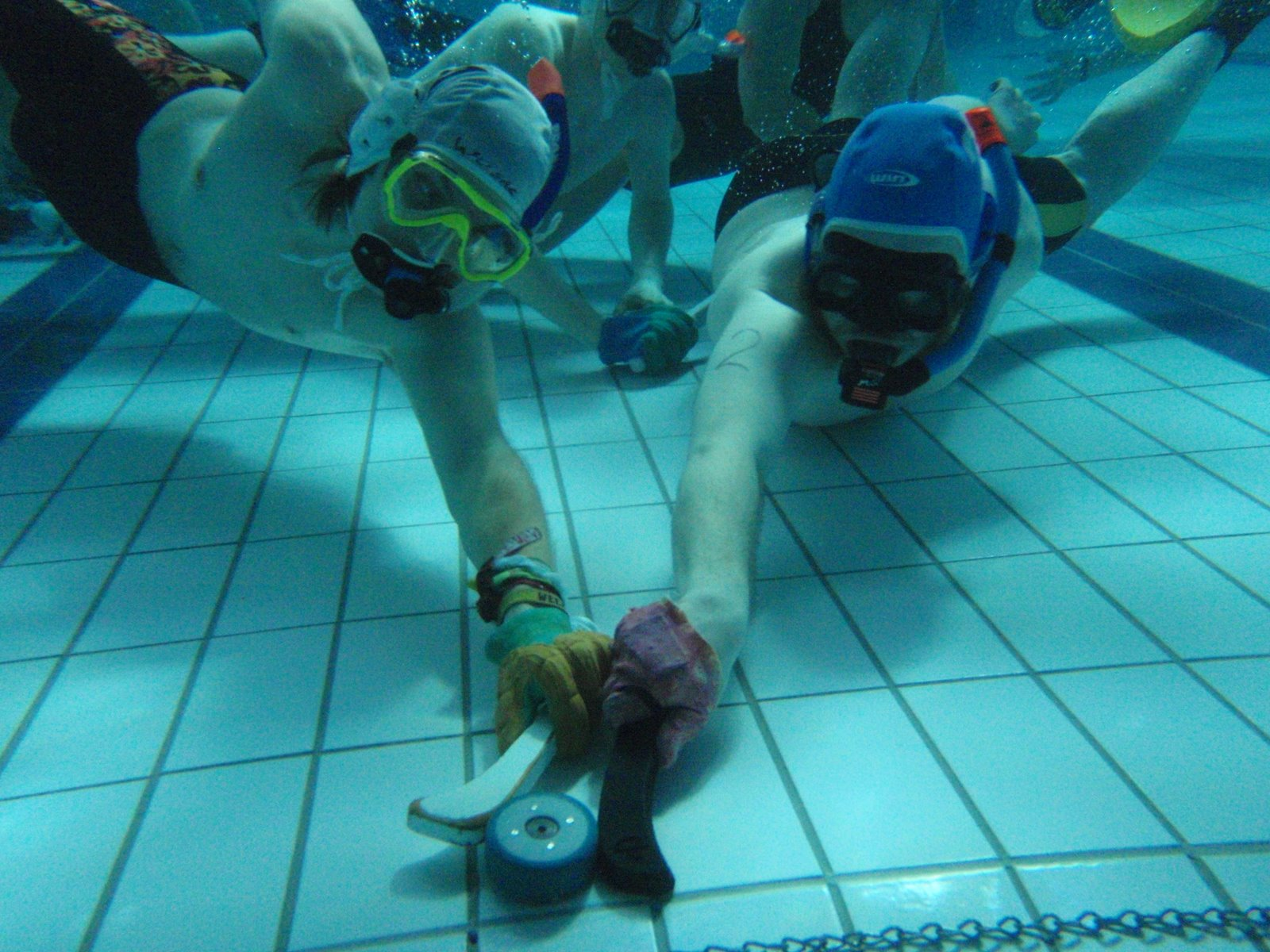 Two players compete for the puck at the GB Underwater Hockey University Student Nationals 2009, held at Bangor University, Wales.